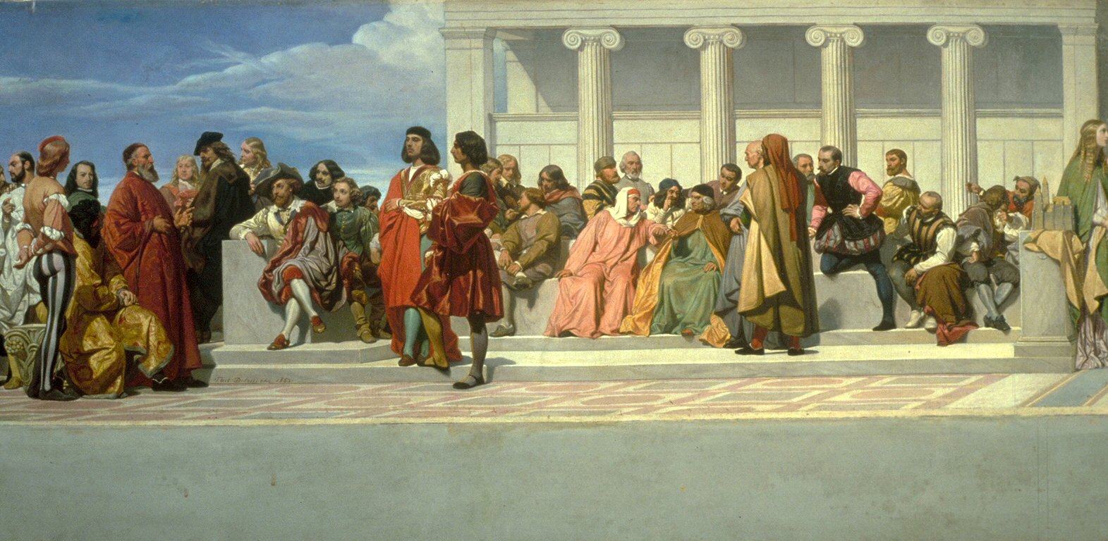 This painting replicates Paul Delaroche's most famous work, a mural in oils and wax (1836-41) in the auditorium of the École des Beaux-Arts in Paris, France's most prestigious art school. Delaroche's pupil, Charles Béranger, is thought to have begun this replica in 1841, but the master completed it following his pupil's death in 1853. It provided a basis for Louis Pierre Henriquel-Dupont's engraving reproducing the composition. Represented are great artists of the past who appear to preside over the awards ceremonies held in the auditorium. Enthroned in the center are the three masters of antiquity-Ictinus the architect, Apelles the painter, and Phidias the sculptor-flanked by personifications of Greek and Gothic art (on the left) and Roman and Renaissance art (on the right). Below, the semi-nude figure of Fame leans forward to distribute laurel wreaths to the recipients of the coveted Grand Prix de Rome, who were entitled to spend 4 to 5 years studying in Rome at the expense of the State. Those European artists from the 13th through the 17th centuries whom Delaroche ranked as the most important are included in his great assembly. To the left are 14 sculptors and a gathering of painters known as colorists and naturalists and, to the right, 13 architects, 2 engravers, and 19 painters distinguished for their drawing. Although many of their names are familiar today, among them Titian, Rembrandt, and Rubens on the left, and Raphael, Michelangelo, and Poussin on the right, others are less so. Notably absent are Botticelli, El Greco, and Vermeer, whose paintings were not rediscovered until later in the century. According to the accounts of the dealer Adolphe Goupil the exceptionally elaborate frame cost 5,000 French francs, or $1,000, a remarkable sum in 1853.